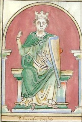 Edmund II of England